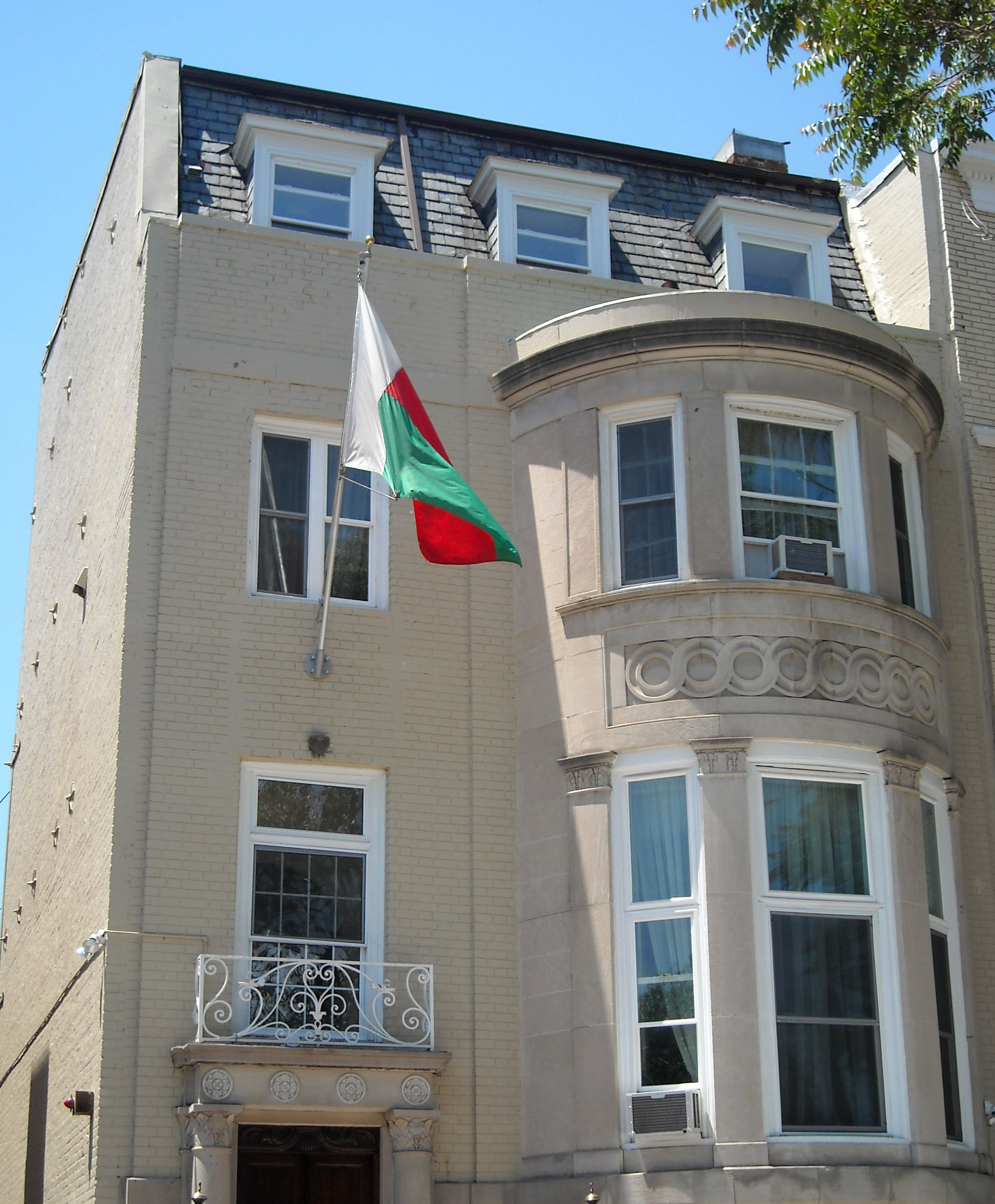 Embassy of Madagascar to the United States. Located in Washington, D.C.